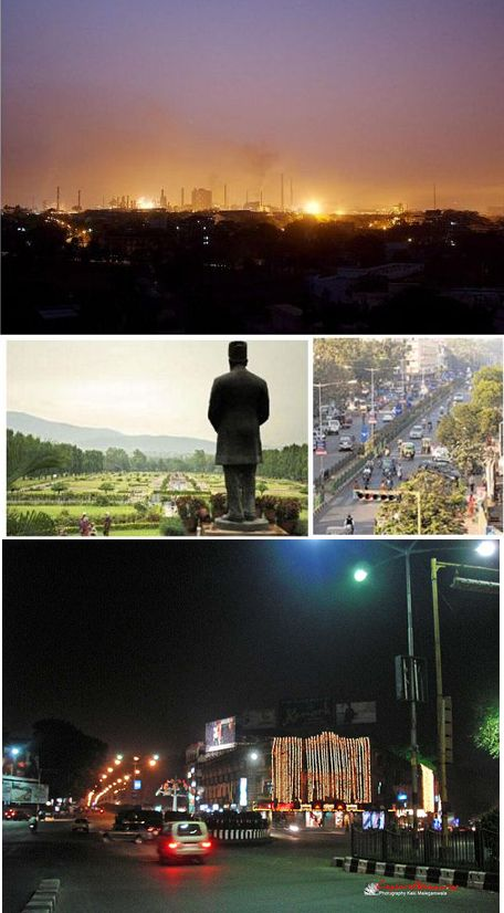 collection of images of the city jamshedpur tata steel,jubilee park,bistupur